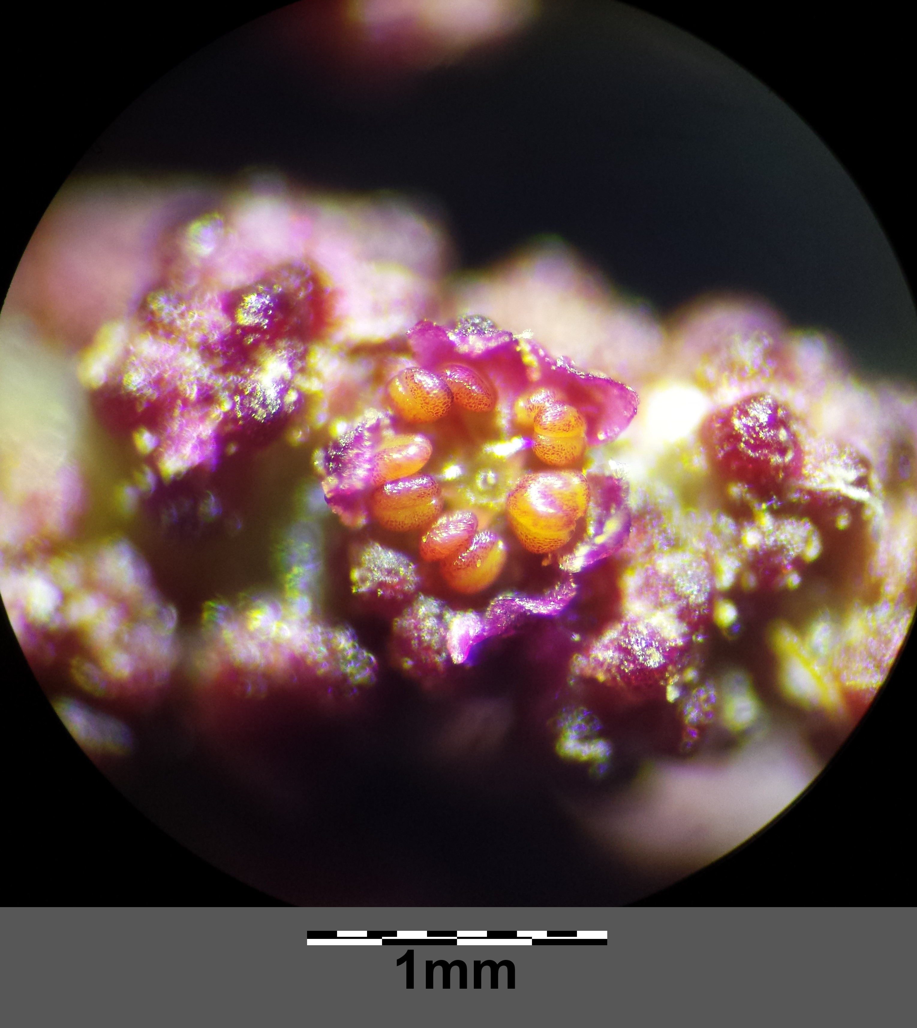 ♂ flower Taxonym: Atriplex hortensis ss Fischer et al. EfÖLS 2008 ISBN 978-3-85474-187-9 Location: Groß-Jedlersdorf cemetery, Vienna-Floridsdorf - ca. 160 m a.s.l. Habitat: idle grave